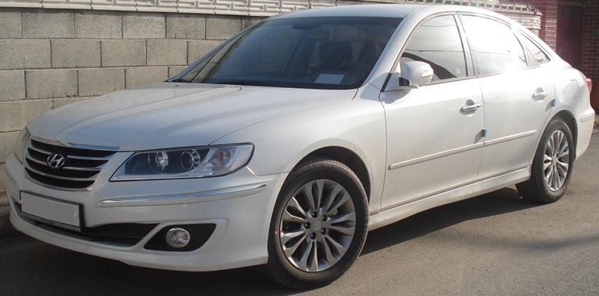 Hyundai The Luxury Grandeur